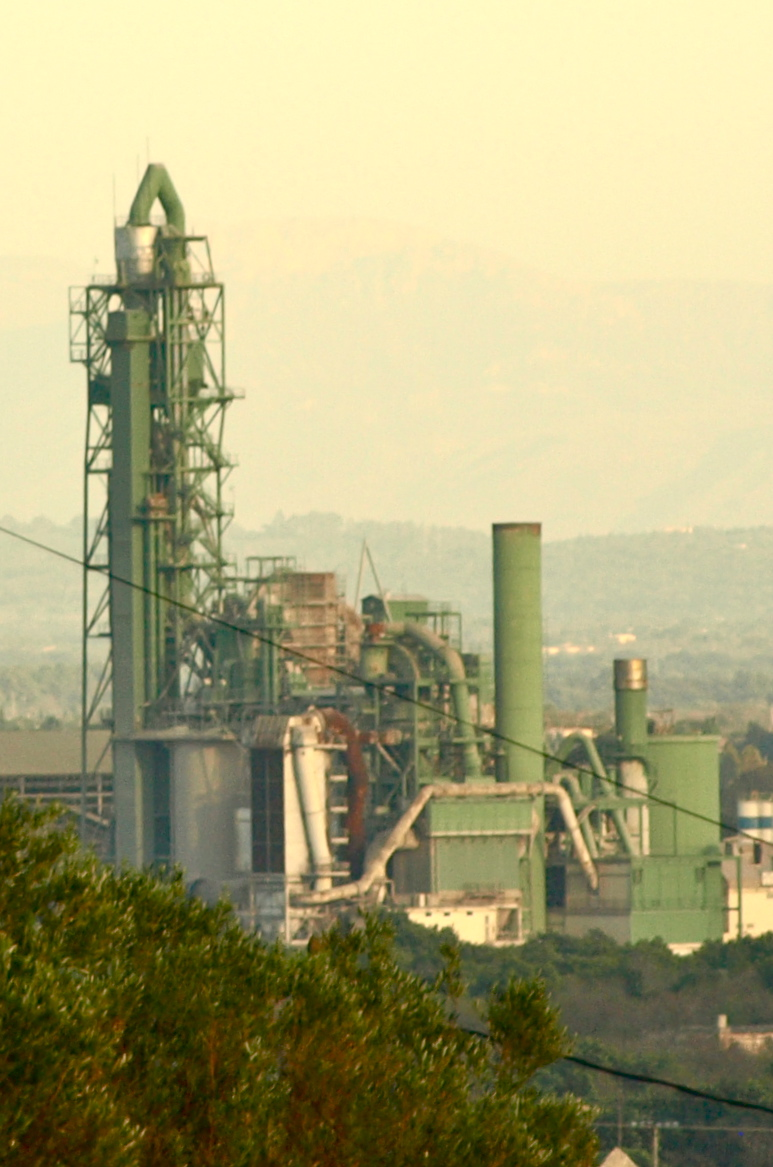 Cement factory at Lloseta Place Lloc/Place: Lloseta, Mallorca